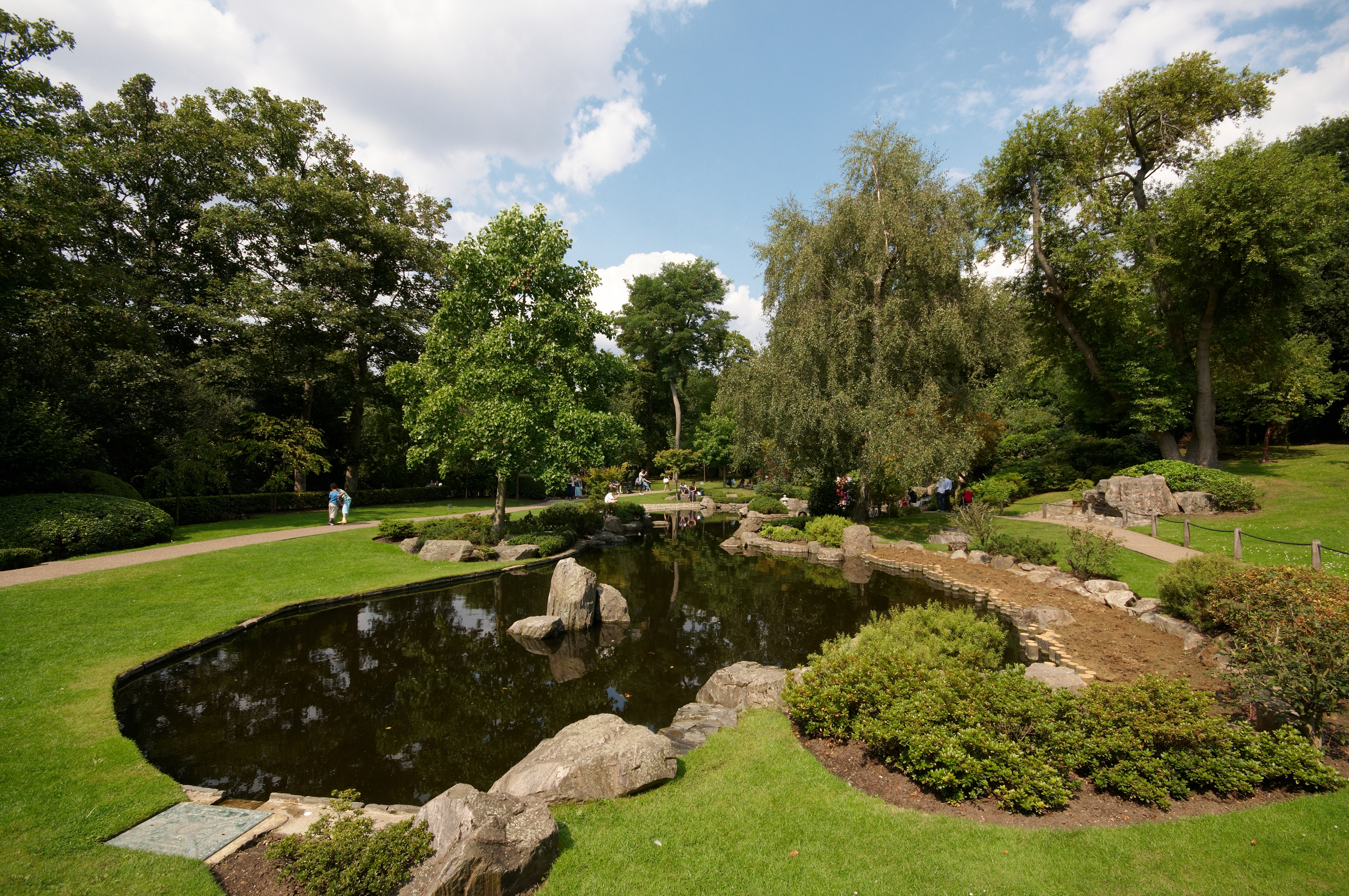 Kyoto Gardens, Holland Park, London